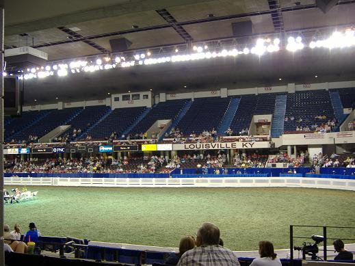 Freedom Hall during the 2006 Kentucky State Fair.